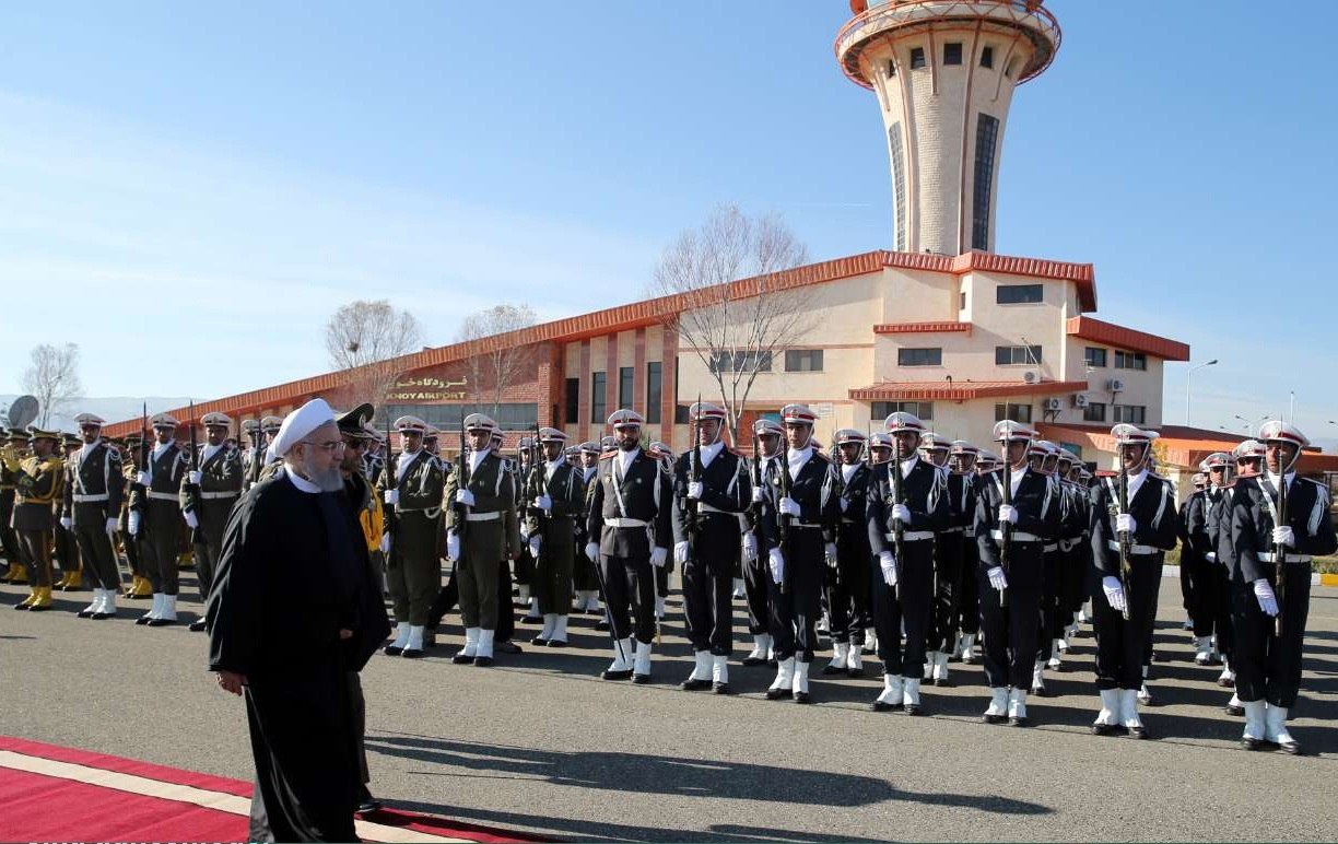 presedent at khoy airport